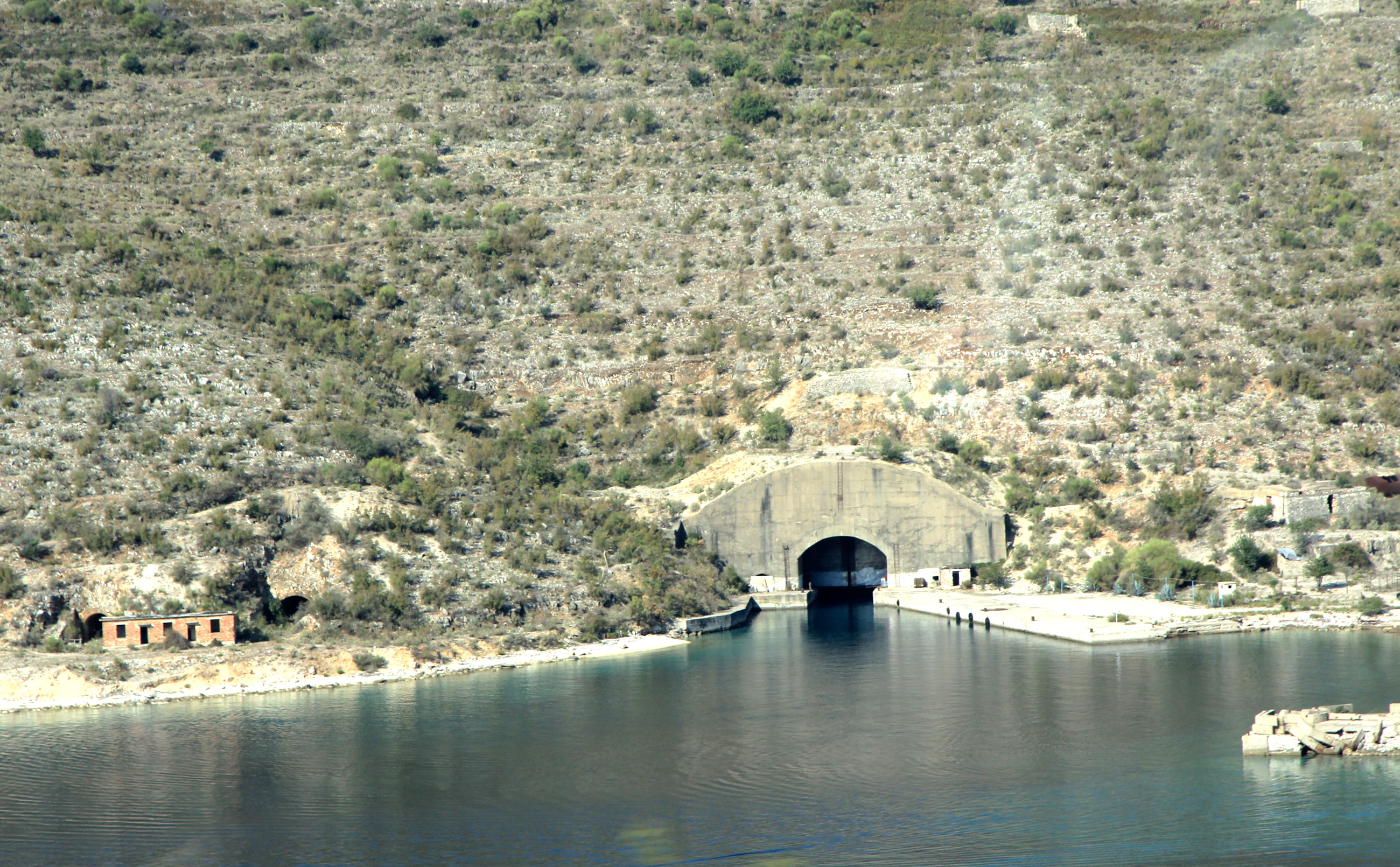 The entrance into old, not used port for one of army submarine from China production Porto Palermo Tunnel near of Porto Palermo, Albania, September 2018